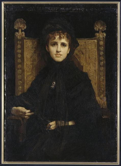 A woman, clothed in black, sits in a high-back wooden chair. She stares directly in front of her. Her left hand rests in her lap while her right lays on the chair's arm rest.